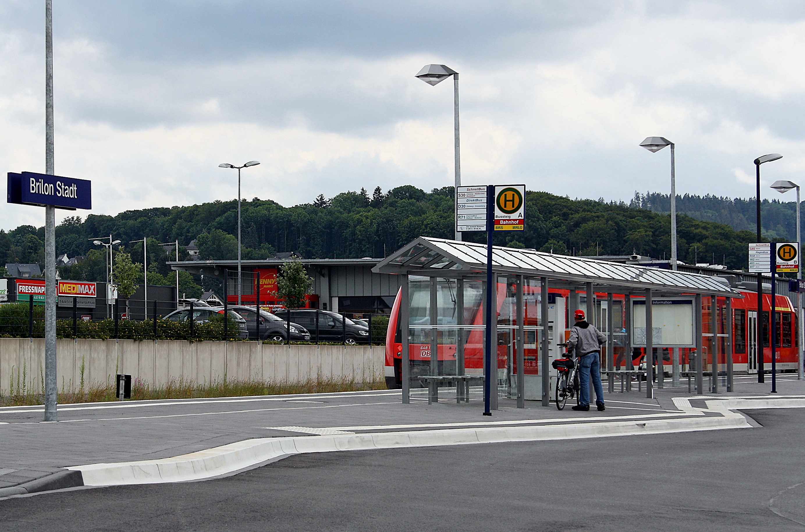 railway station Brilon Stadt